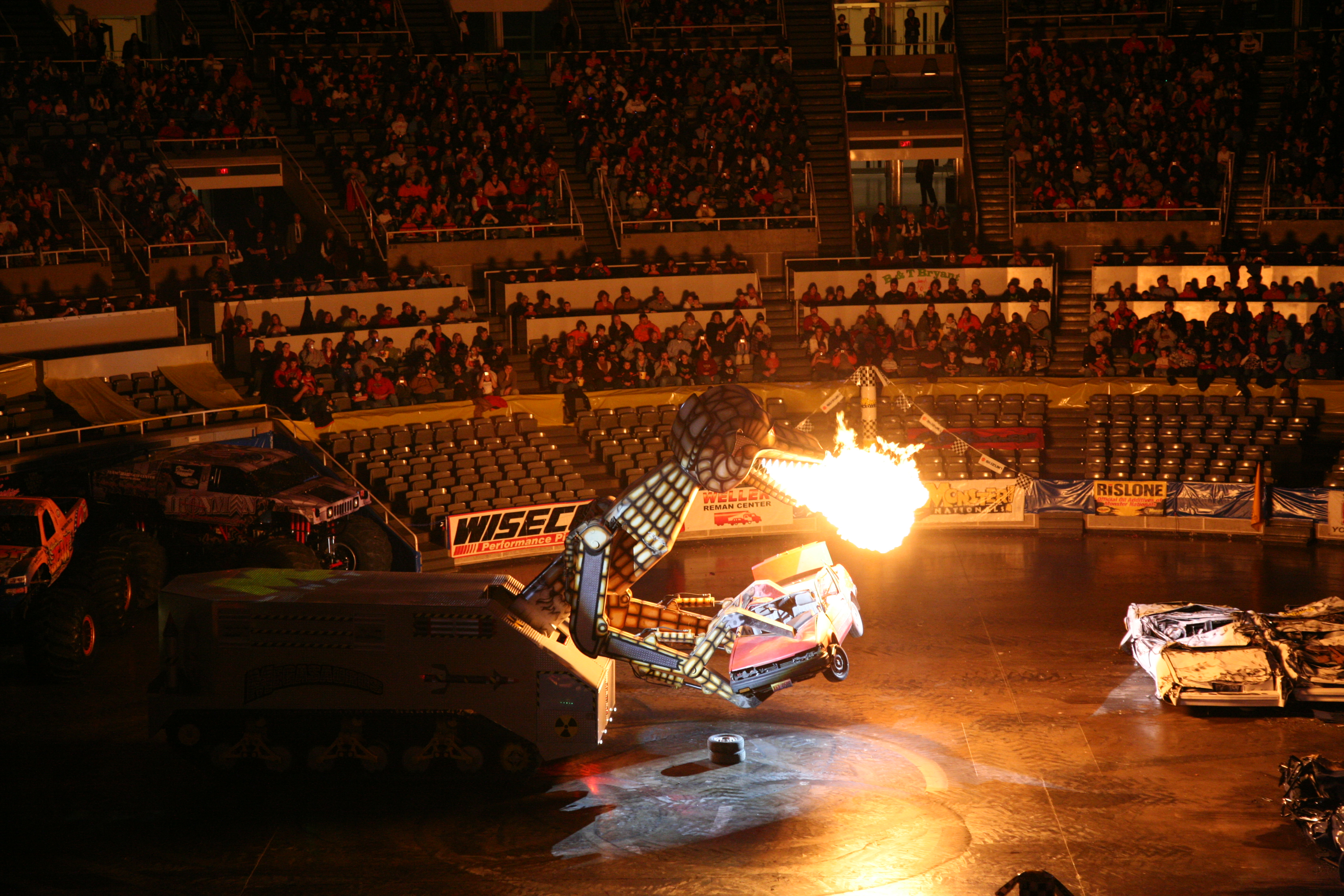 Megasaurus, about devour a compact car during a Monstertruck event at UIUC Assembly Hall.